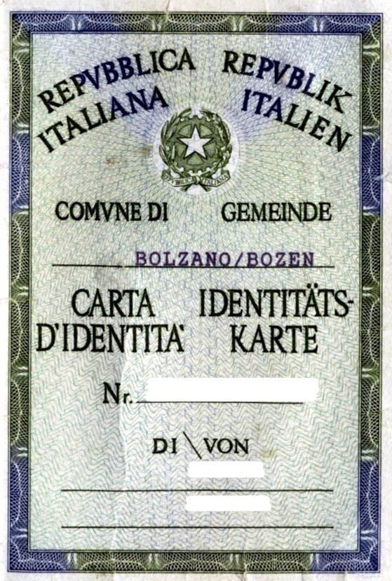 South Tyrol bilingual (italian-german) identity card